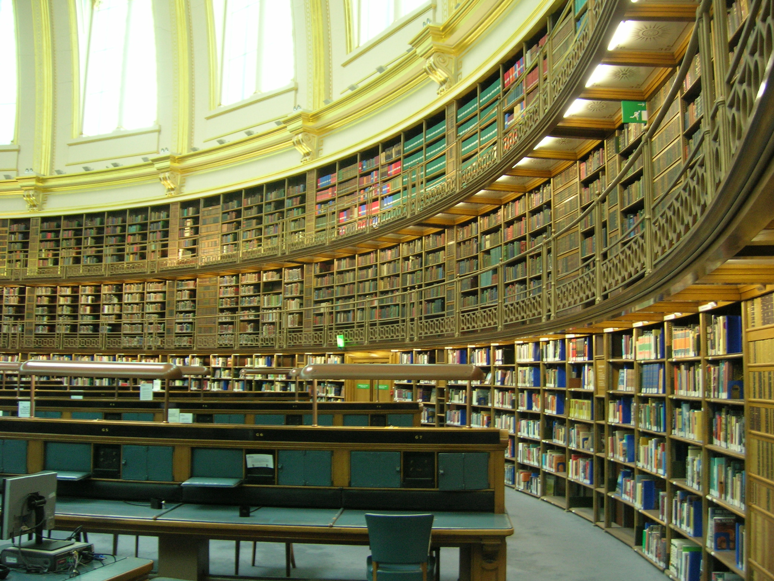 The British Museum Reading Room, situated in the centre of the Great Court of the British Museum, used to be the main reading room of the British Library. In 1997, this function moved to the new British Library building at St Pancras, London, but the Reading Room remains in its original form Source [1]